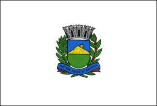 Flag of Torrinh - SP - Brazil.